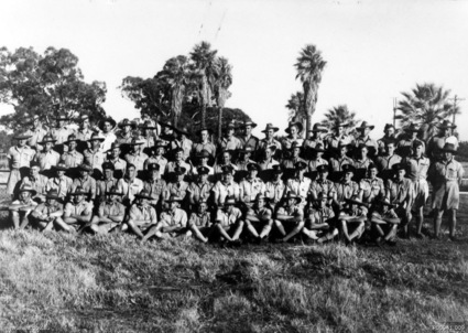 Australian War Memorial image P00941.009. Members of No. 85 Squadron RAAF in March 1943